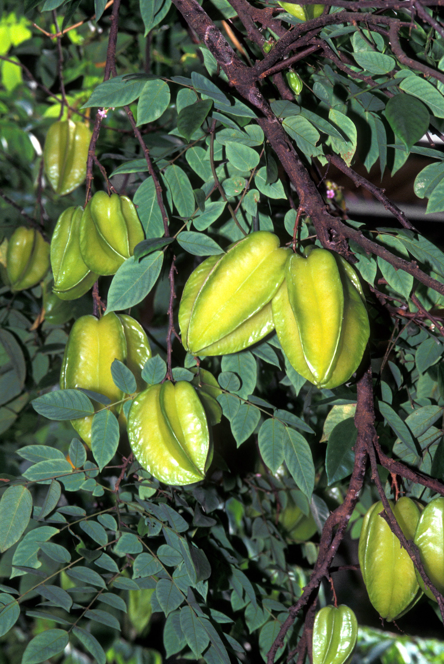 Carambolas, Arkin variety.